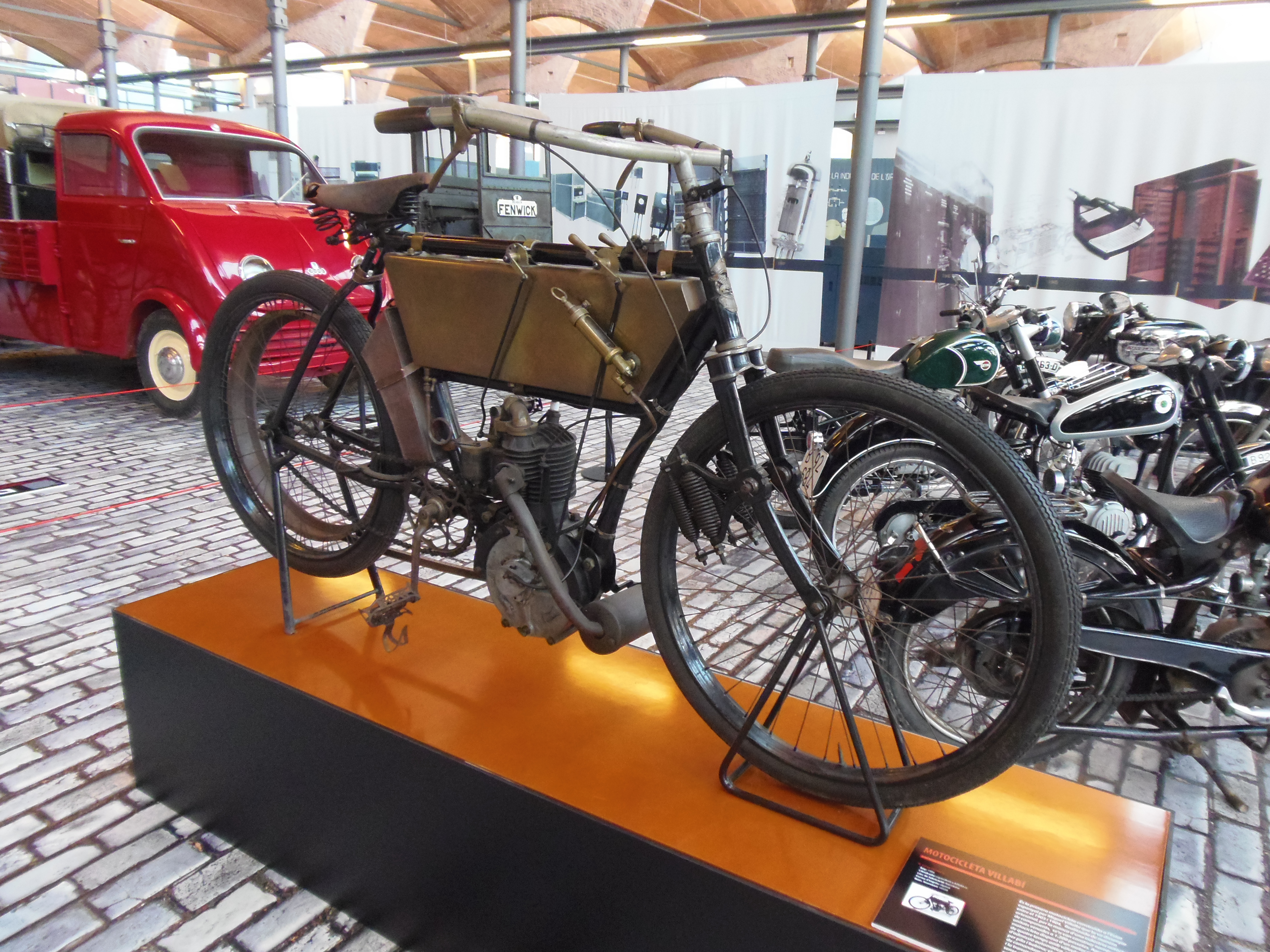 Villalbí 430cc (1904), the first motorcycle made in Catalonia